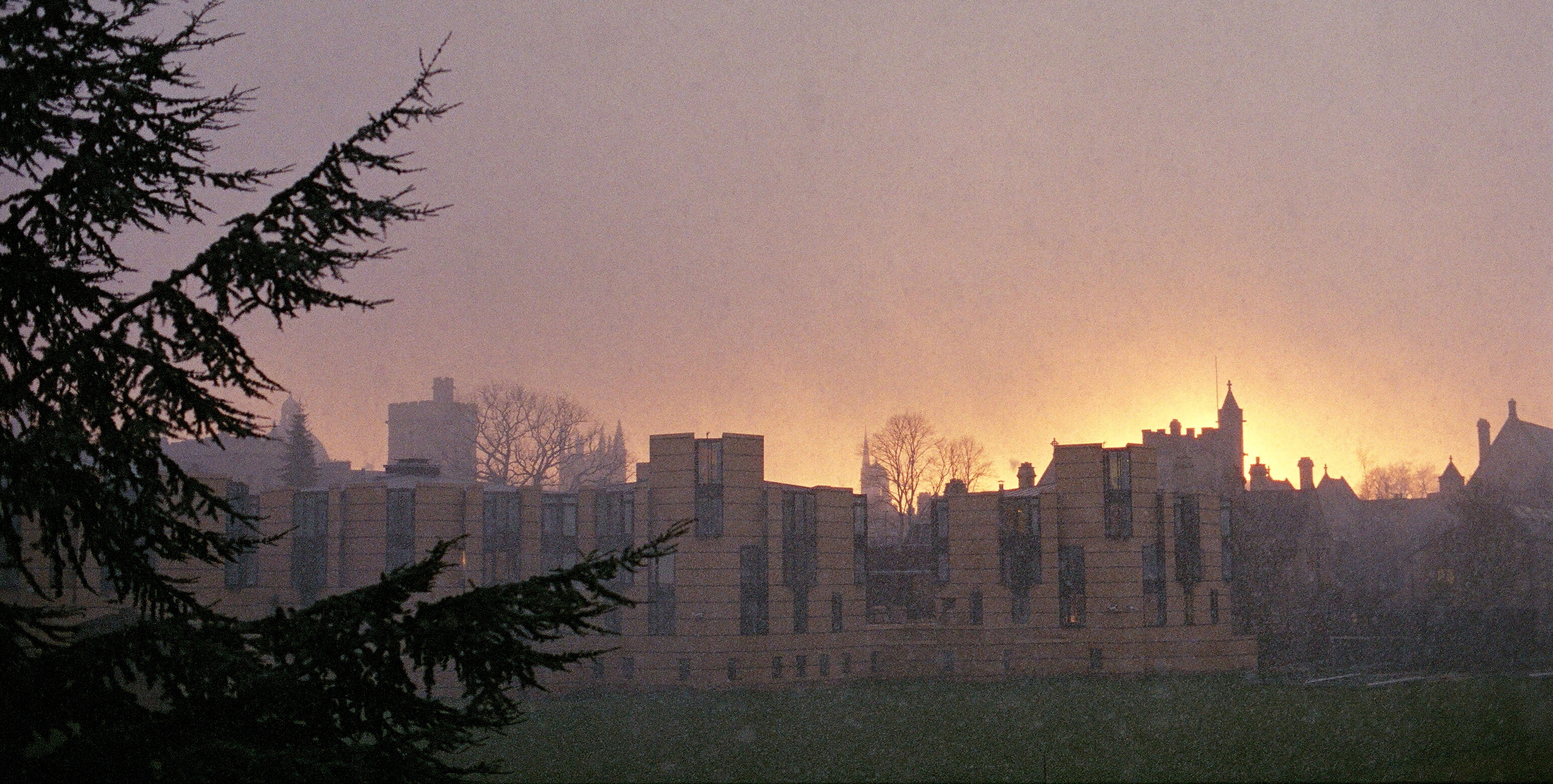 The Jowett Walk buildings of Balliol College, Oxford, England. Seen from across the Master's field.